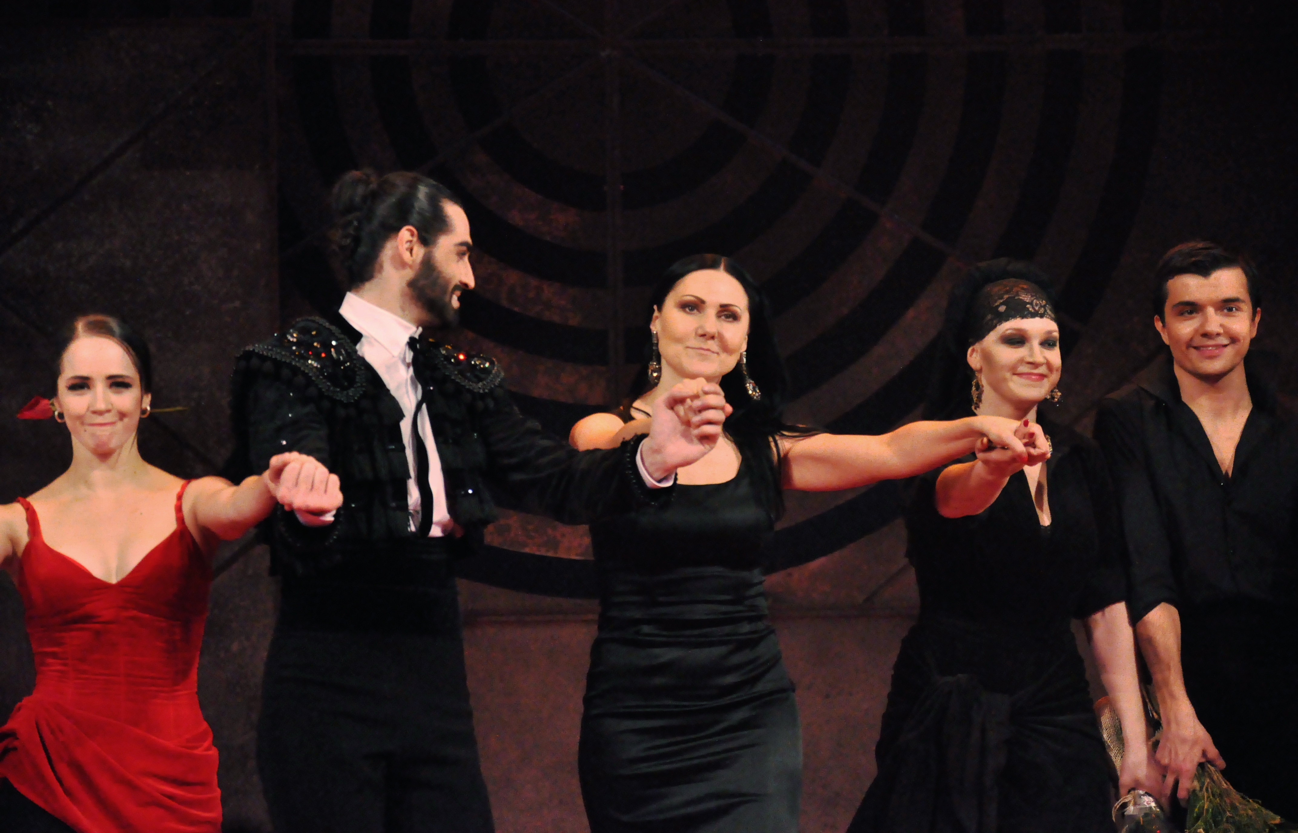 Moscow premiere of "Carmen", November 27 2012